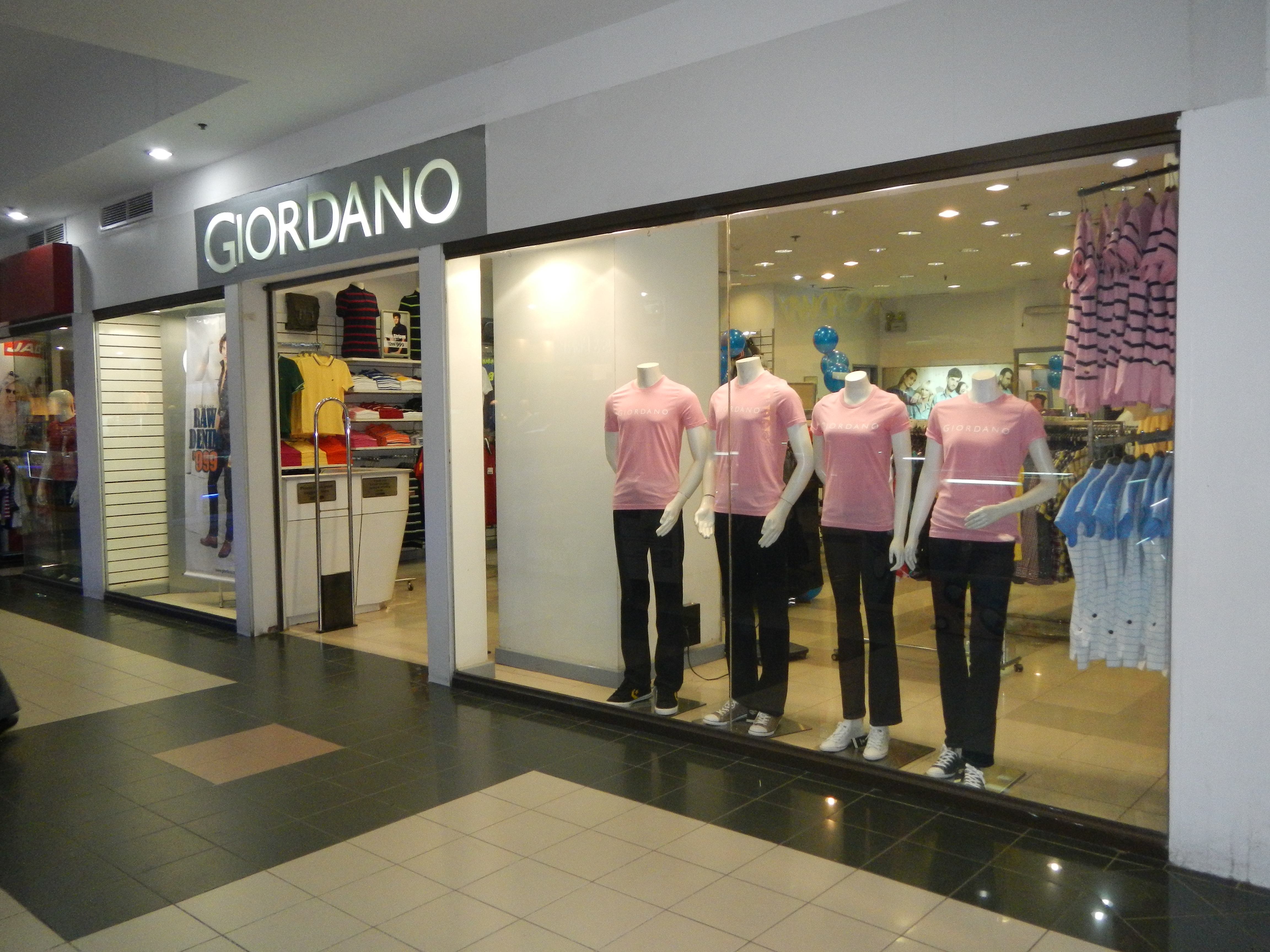 [1], NE Pacific Mall, Cabanatuan City, Philippines